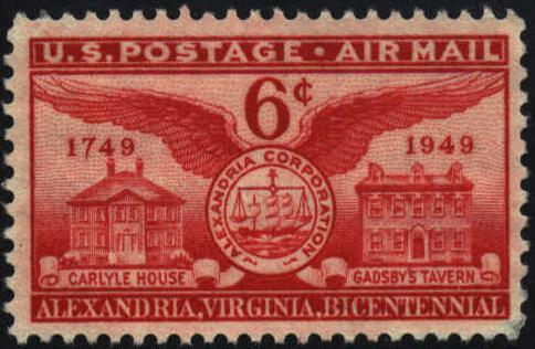 U.S. postage stamp: Alexandria Virginia (1949) 6 cents Source: Alaska Coin Exchange Web site